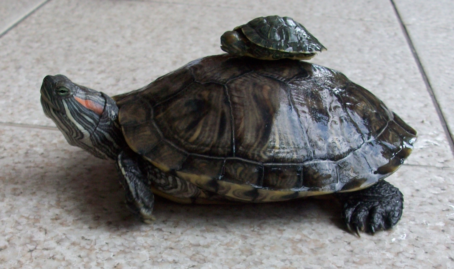 Turtle with baby on back